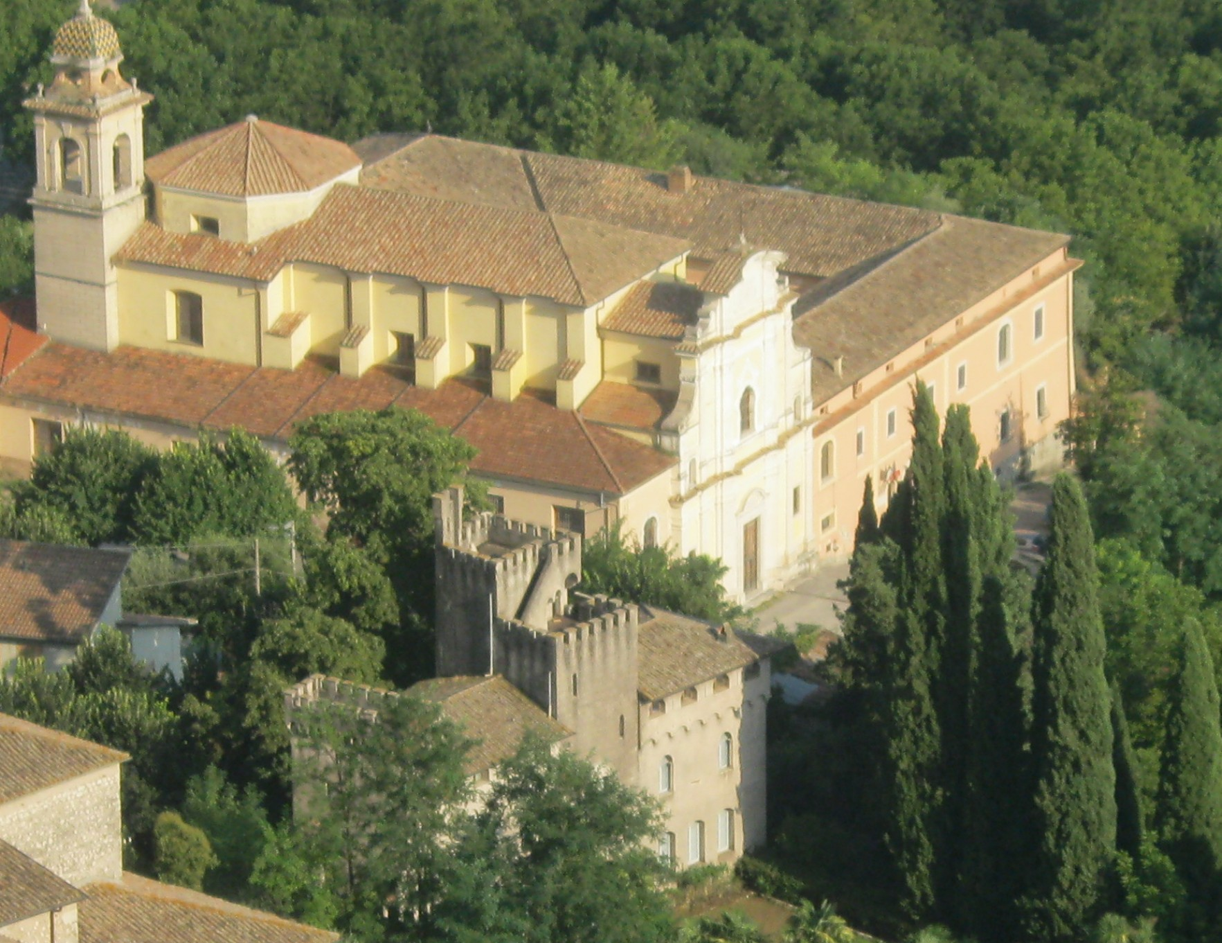 Convent of Saint Nicholas (Alvito, Italy)